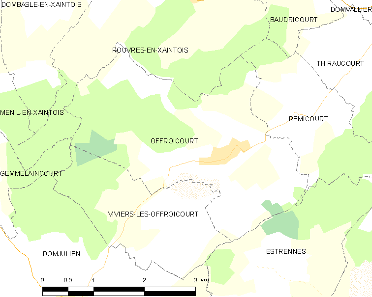 Map of French municipality Offroicourt